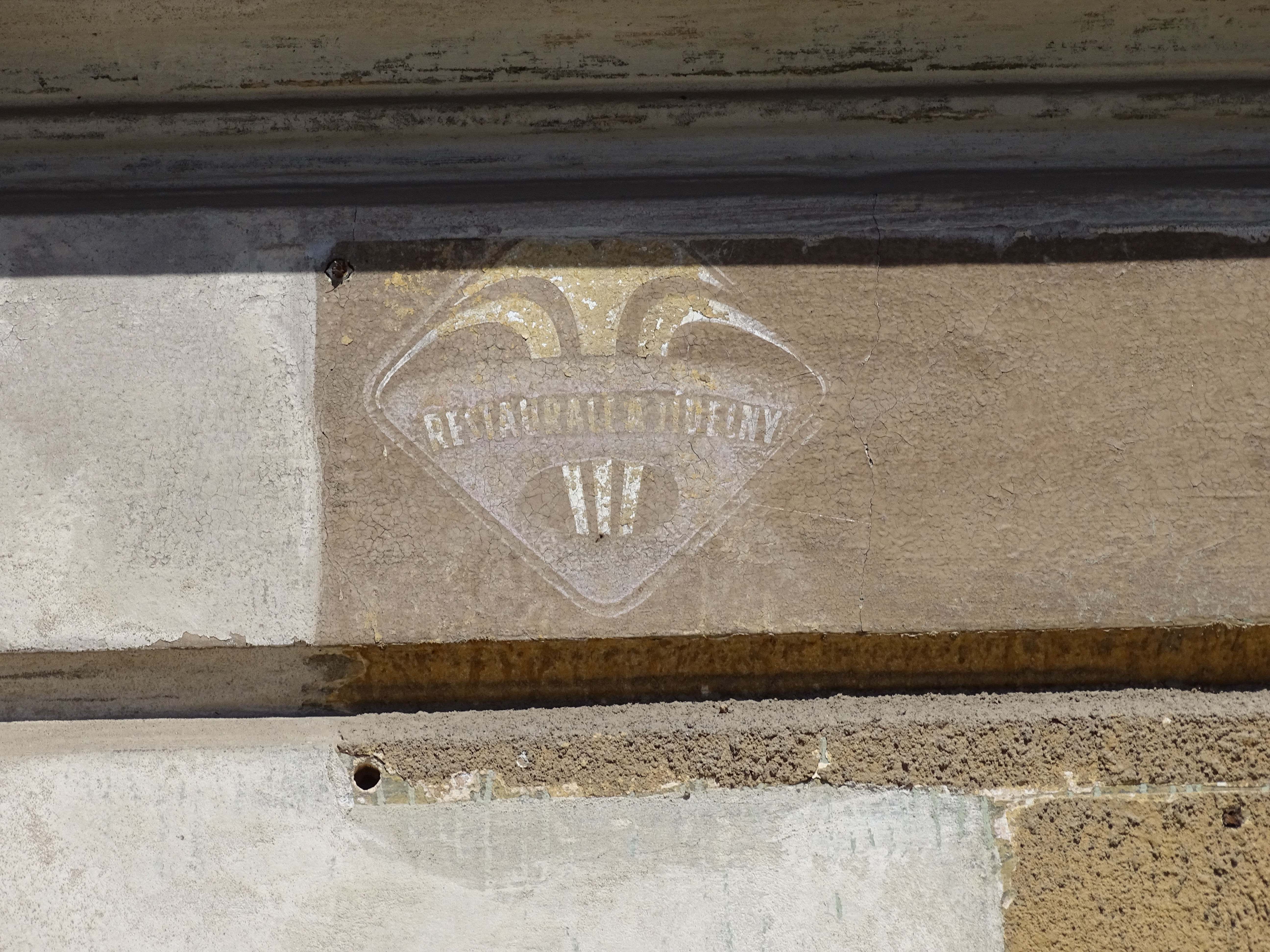 Prague-Střížkov, Czech Republic. Střížkovská 30/5, a former pub.